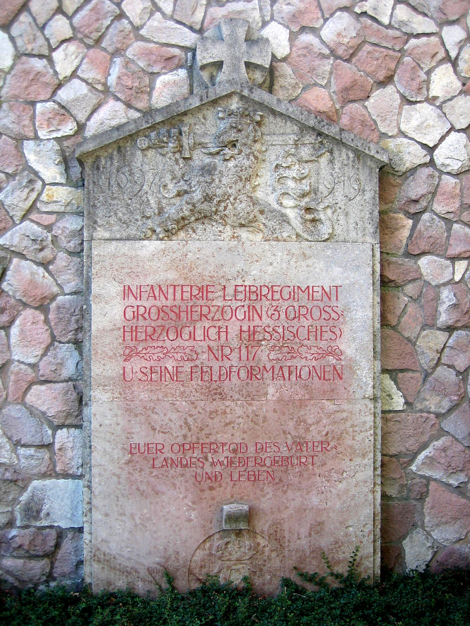 Memorial of the Infanterie-Leib-Regiment „Großherzogin“ (3. Großherzoglich Hessisches) Nr. 117 in the municipal cemetery of Mainz